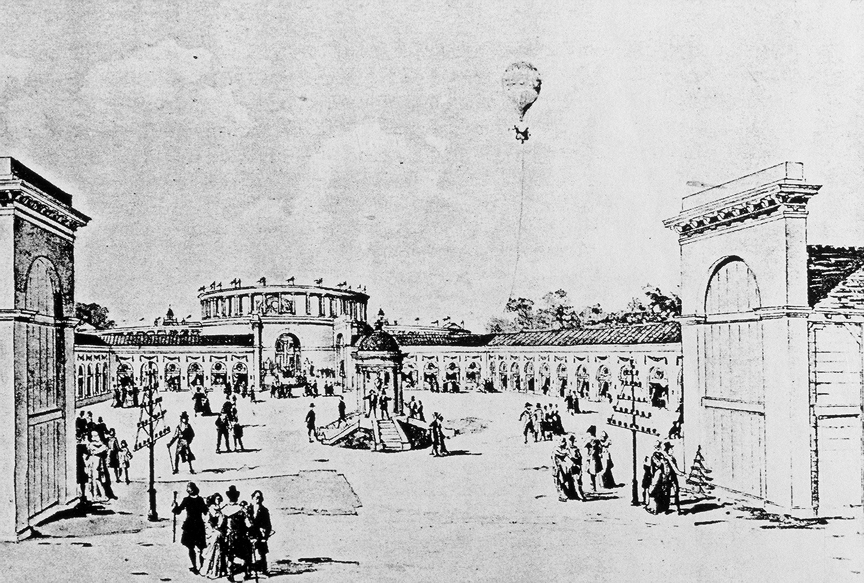 Grounds of the first Exposition des produits de l'industrie française in Paris in 1798